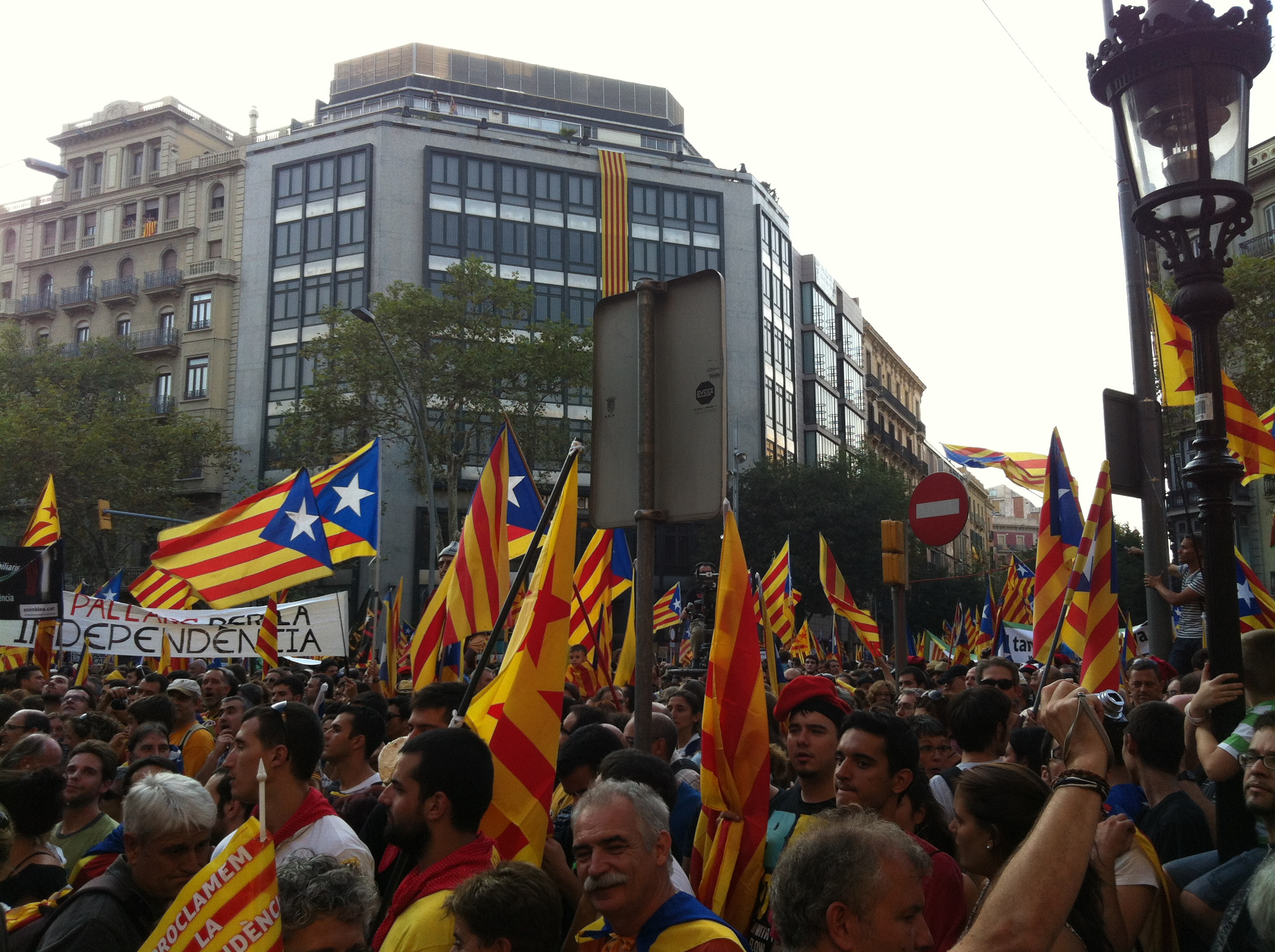 2012 Catalan independence protest on September 11th